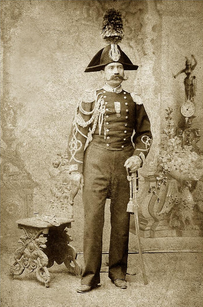 Early Carabinieri, about 1875